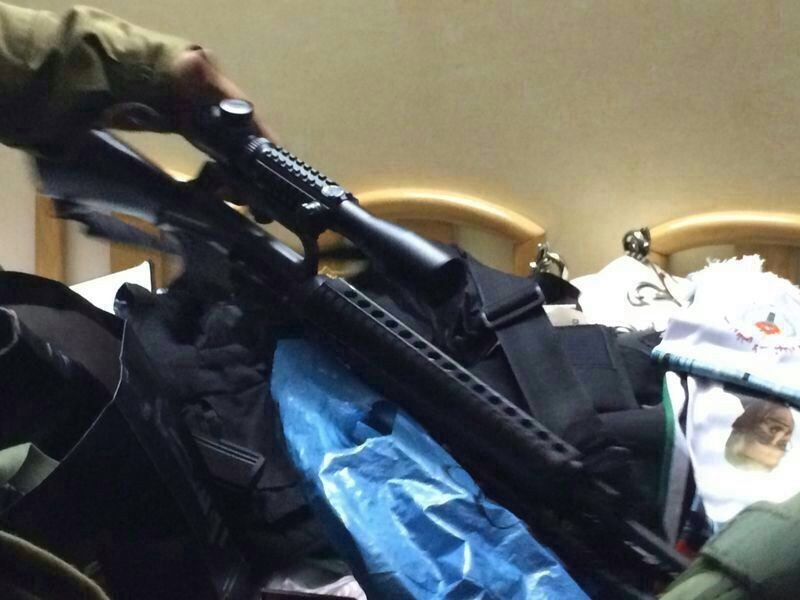 On the night of June 16th, 2014, IDF forces searched the city of Nablus as a part of Operation Brother’s Keeper -- the operation to find the three kidnapped Israeli teens. The forces found hundreds of concealed weapons and detained more than 40 terrorist suspects. These are the weapons they found in the possession of Palestinians. Read more The Israel Defense Forces Facebook The Israel Defense Forces blog Follow us on Twitter